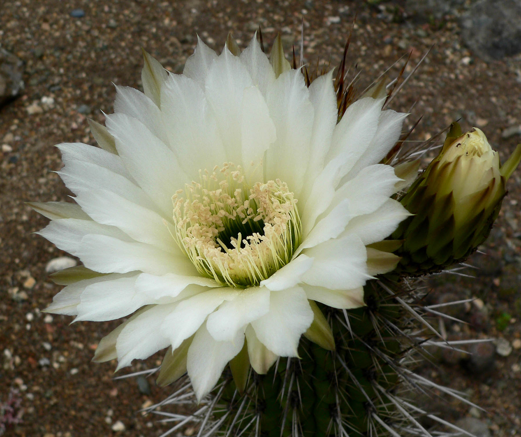 Photo of Trichocereus chiloensis at the University of California Botanical Garden